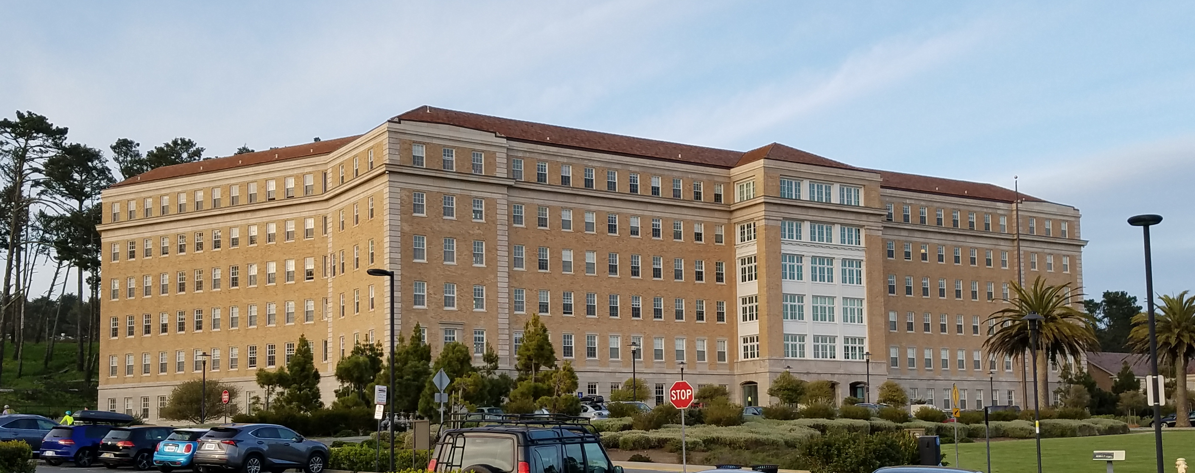 The "Presidio Landmark", an apartment building in San Francisco (formerly the main building of the Public Health Service Hospital)